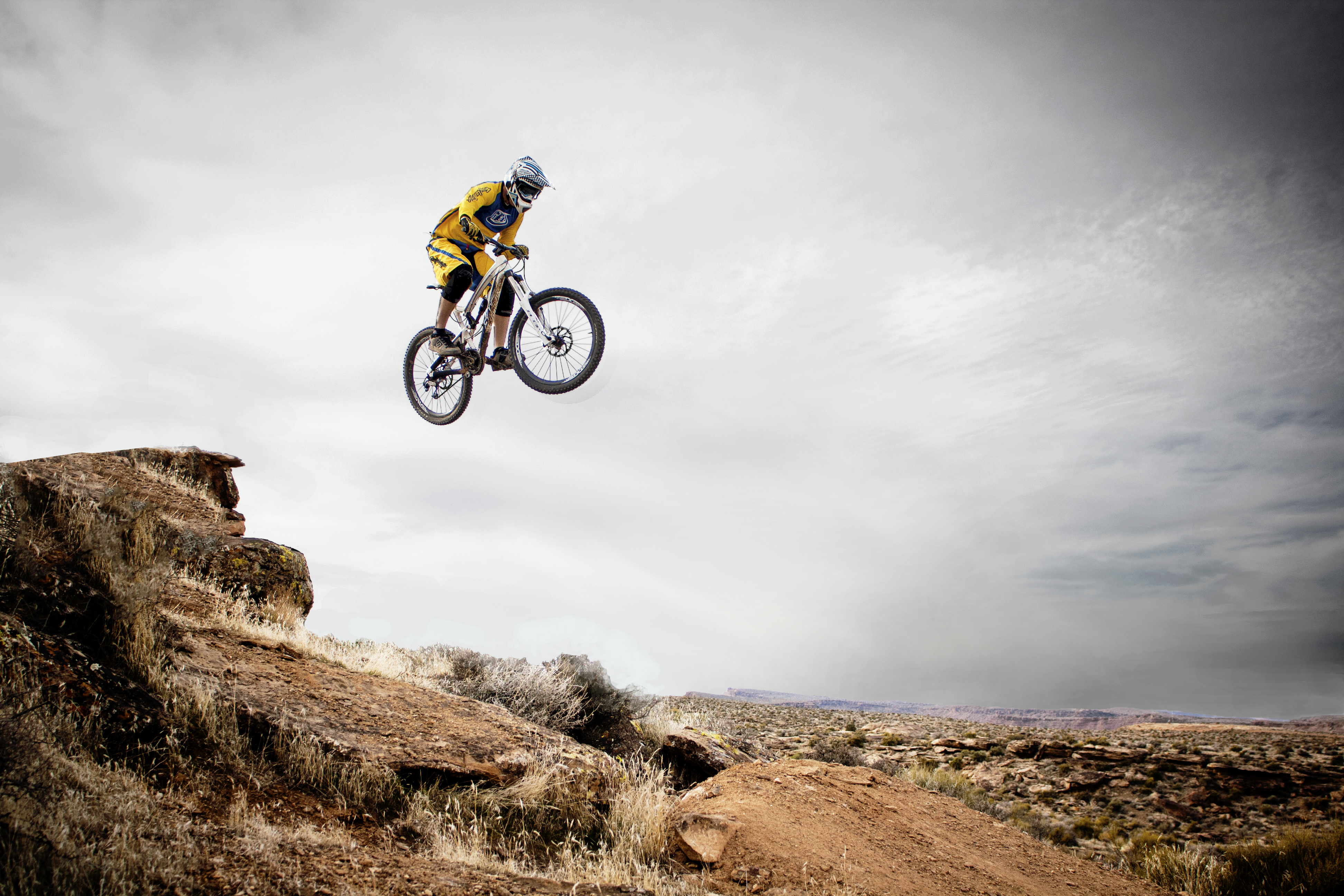 Free-ride mountain biking in Utah